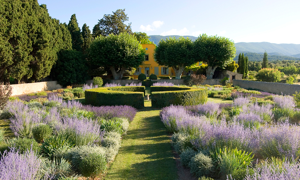 Le Pavillon de Galon